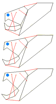 Study of a biomechanical model of Dunkleosteus terrelli jaws.